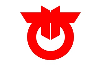 Flag of Okegawa Saitama